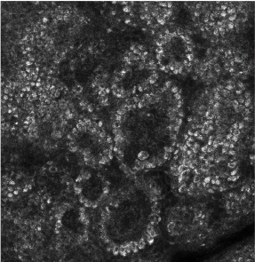 An image that was shot using the VivaScope confocal microscope.